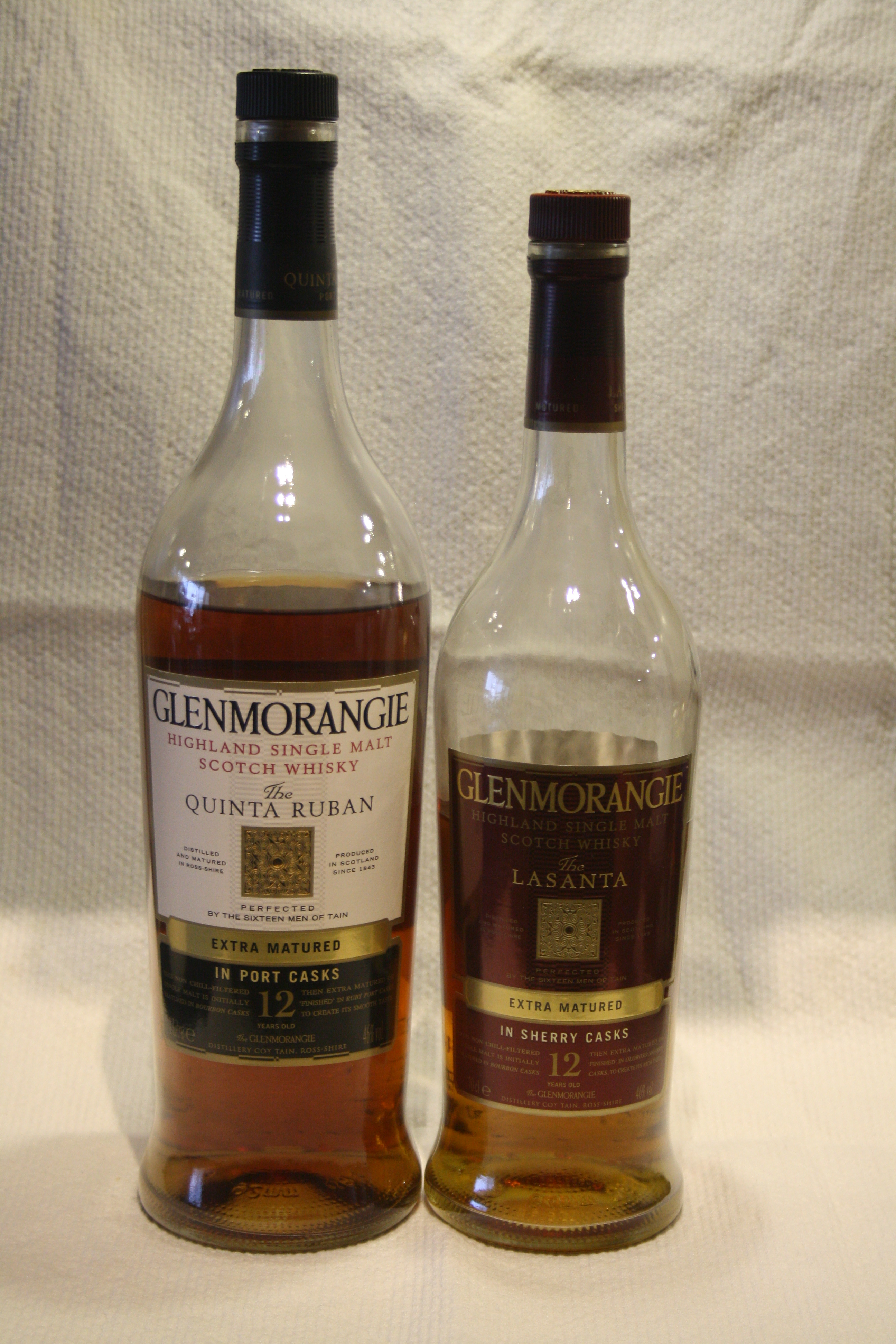 Two bottles Glenmorangie 12 years old Special Edition 1x Quinta Ruban (Port Finish) 1x Lasanta (Sherry Finish)